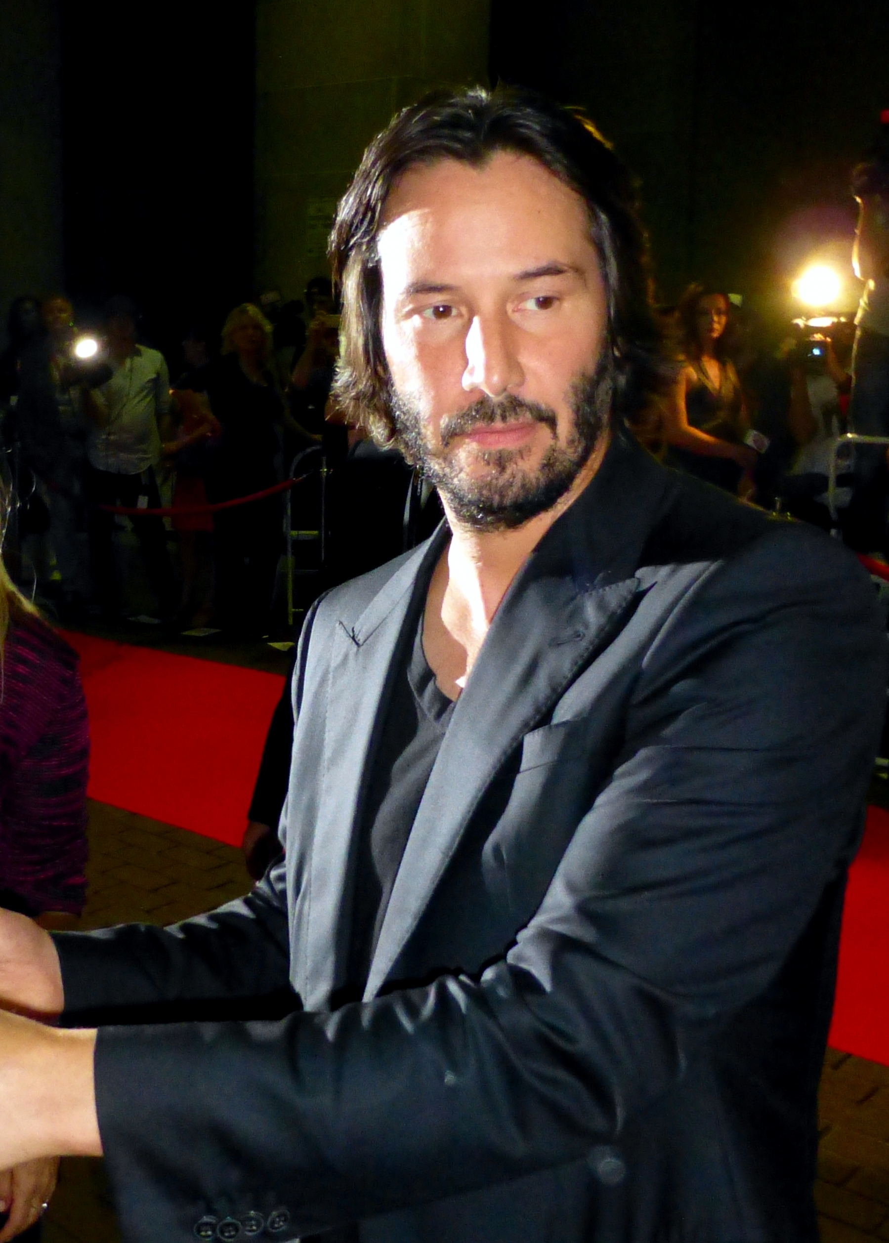 Keanu Reeves at the premiere of Man of Tai Chi, Toronto Film Festival 2013